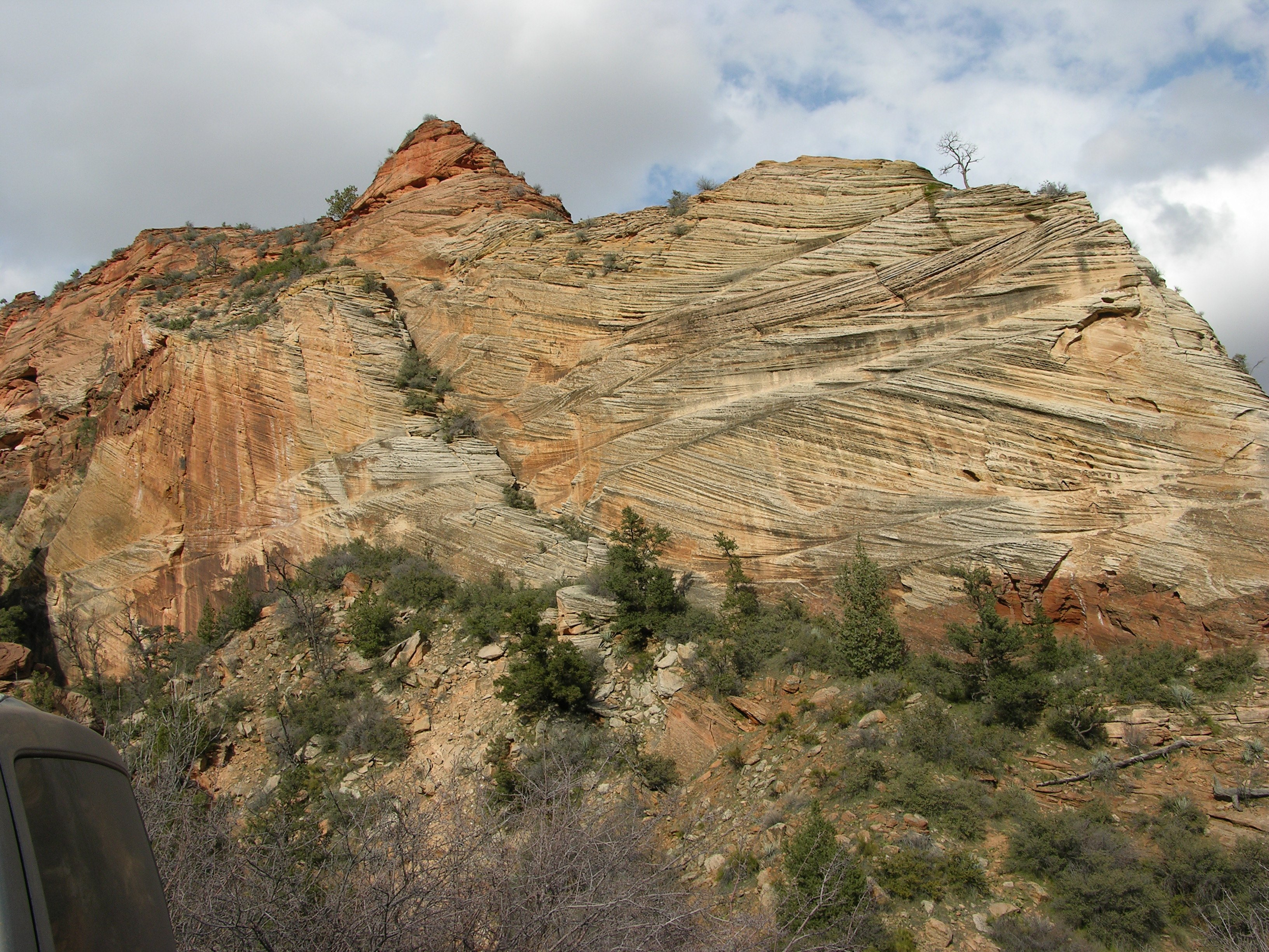 Cross-bedding of sandstone near Mt. Carmel road, Zion Canyon, in Utah USA, indicating wind action and sand dune formation had occurred prior to formation of the rock.